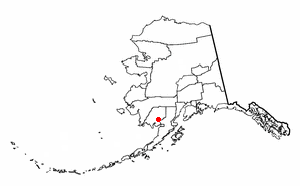 Adapted from Wikipedia's AK borough maps by Seth Ilys.